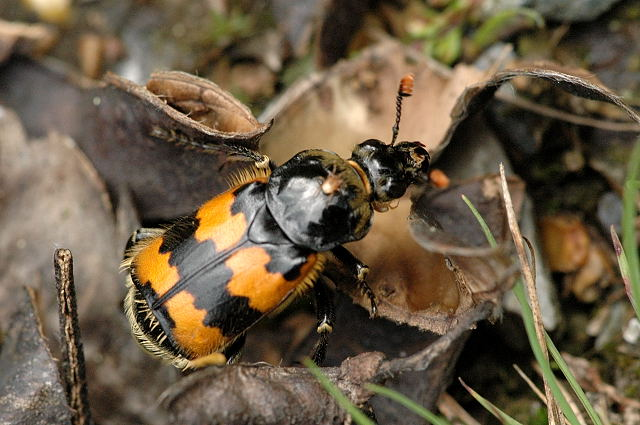 Picture taken in Commanster, Belgian High Ardennes . Species: Nicrophorus vespillo